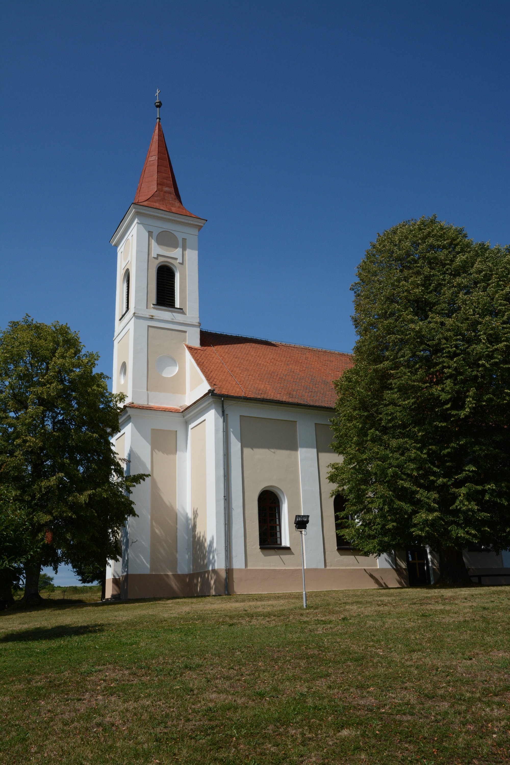 Church Hodoš